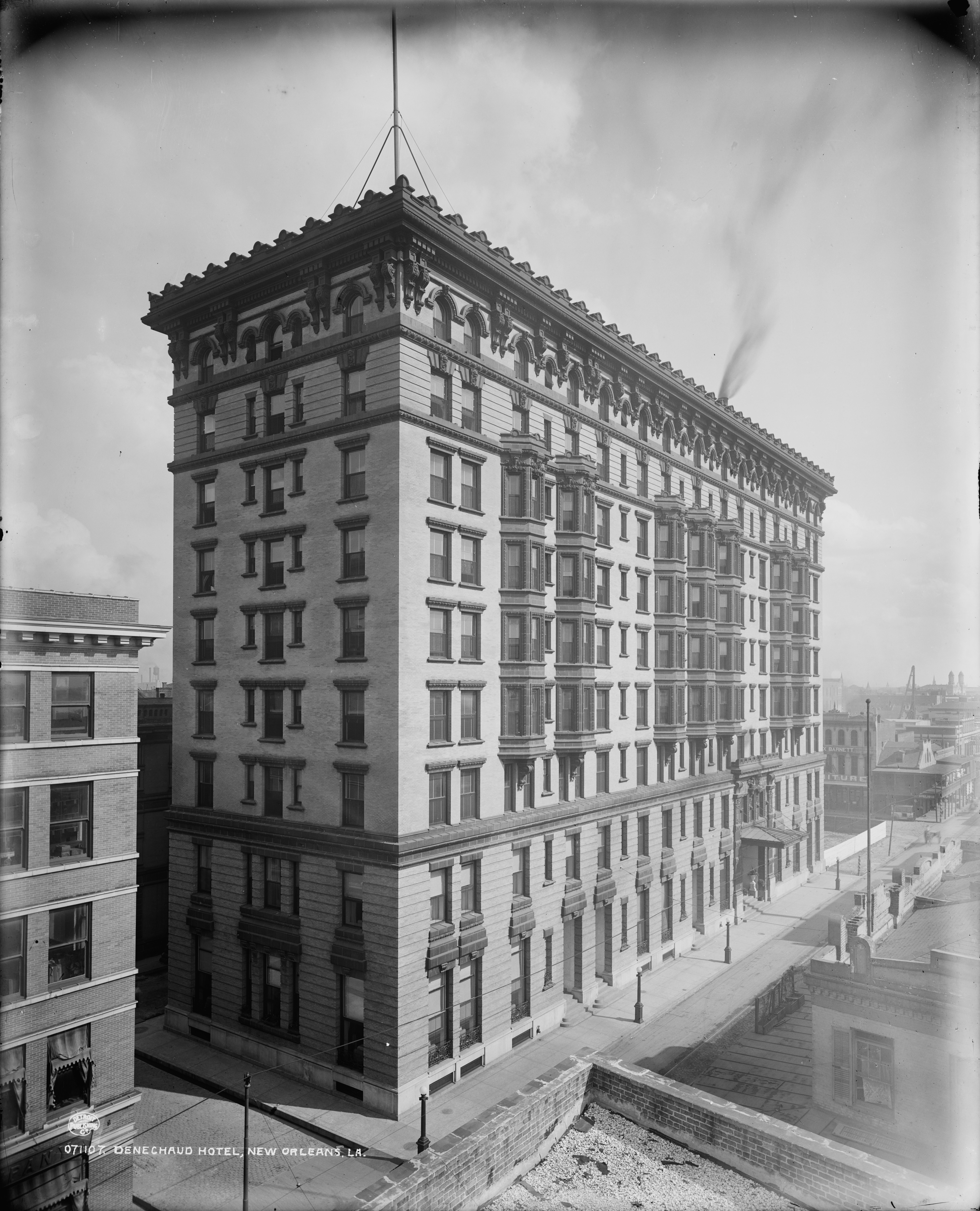 New Orleans: Denechaud Hotel, view on Baronne Street, Circa 1908. Later renamed "The DeSoto", more recently "Le Pavillon".